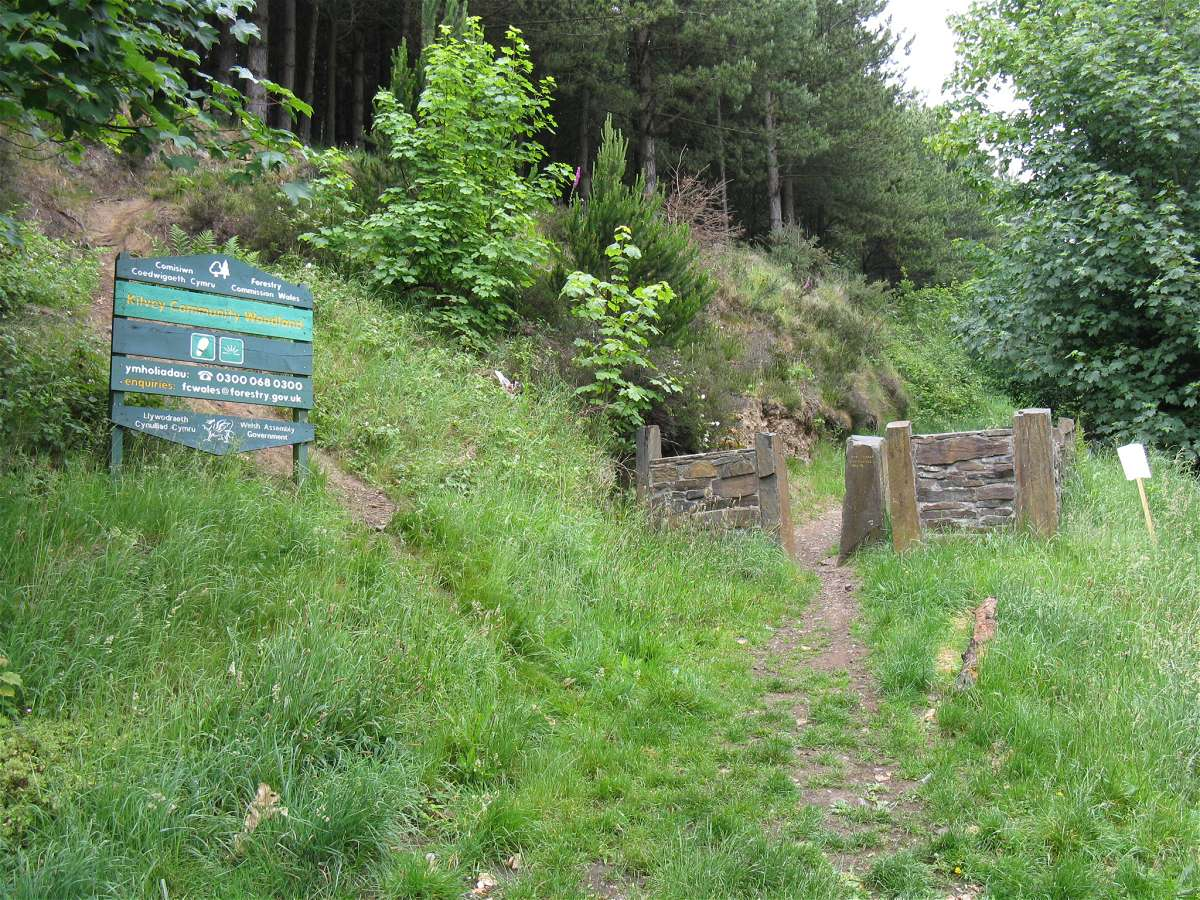 Described as: "This entrance allows access to Kilvey Hill from the south. The woodland is owned by the Forestry Commission but is named as a community wood."